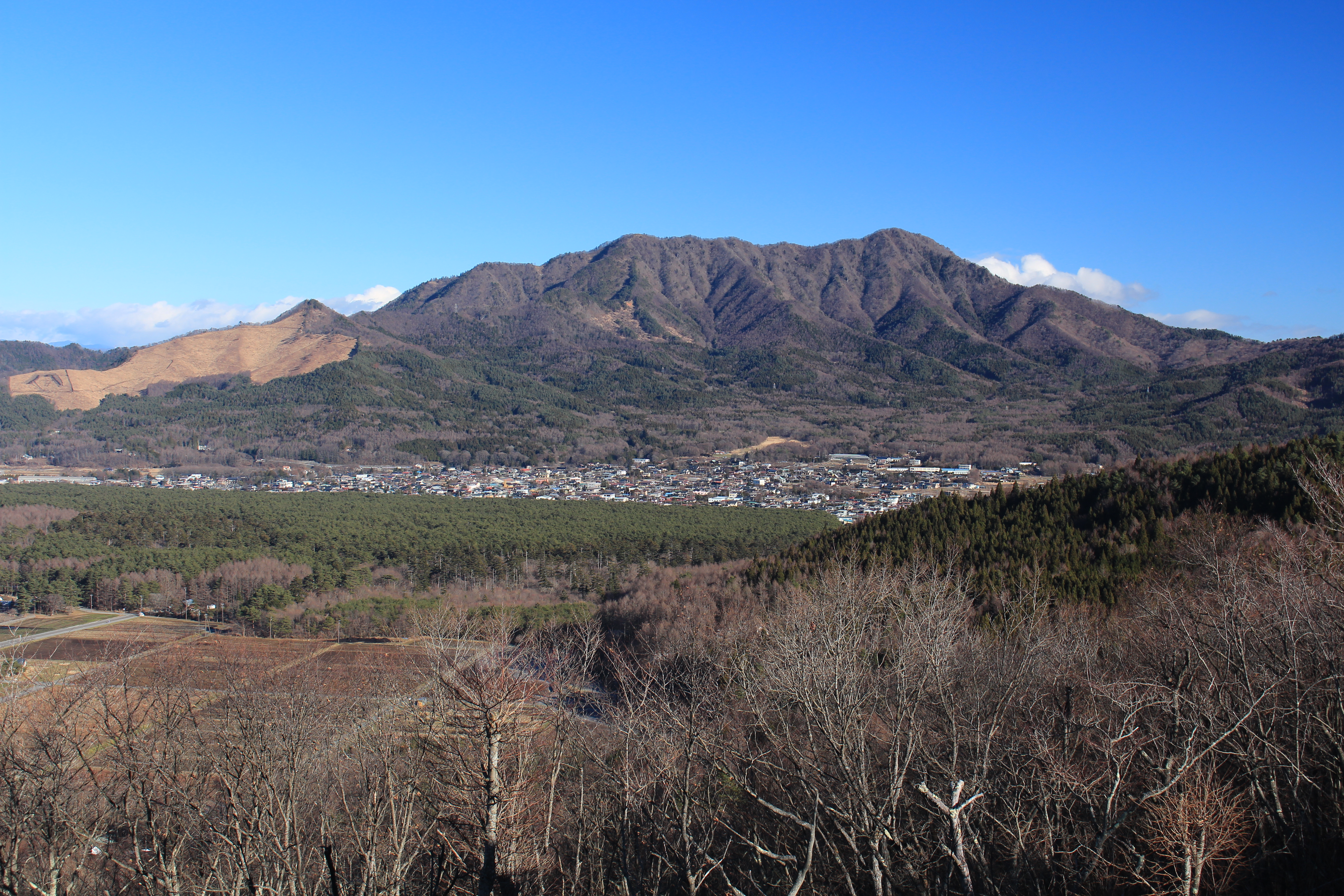 Mount Shakushi (Doshi Mountains) seen from Hotel Mount Fuji, in Yamanashi prefecture, Japan.